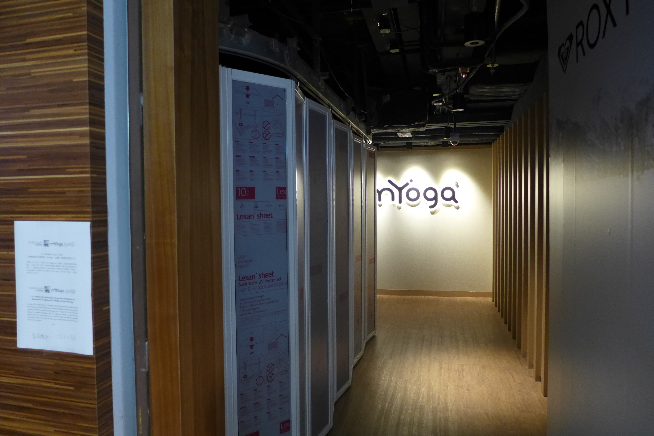 M Yoga in Grand Plaza closed